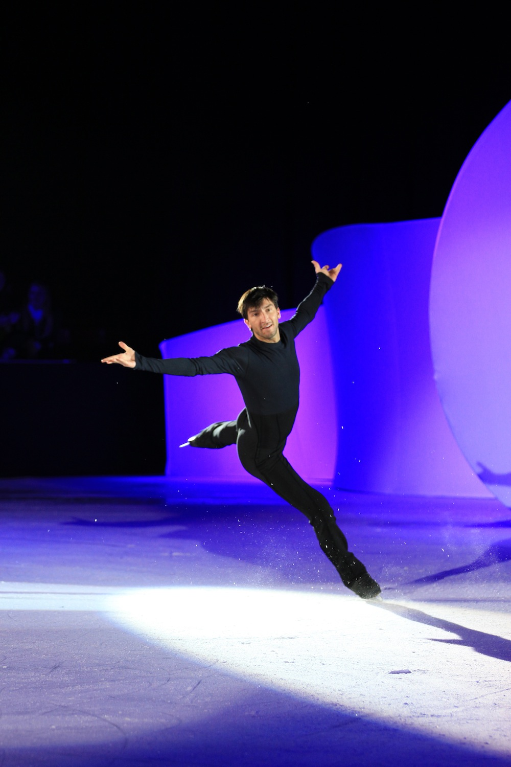 Evan Lysacek skating in Ice Chips 2012, 100 Years of Excellence - Hosted by The Skating Club of Boston at Harvard's Bright Arena